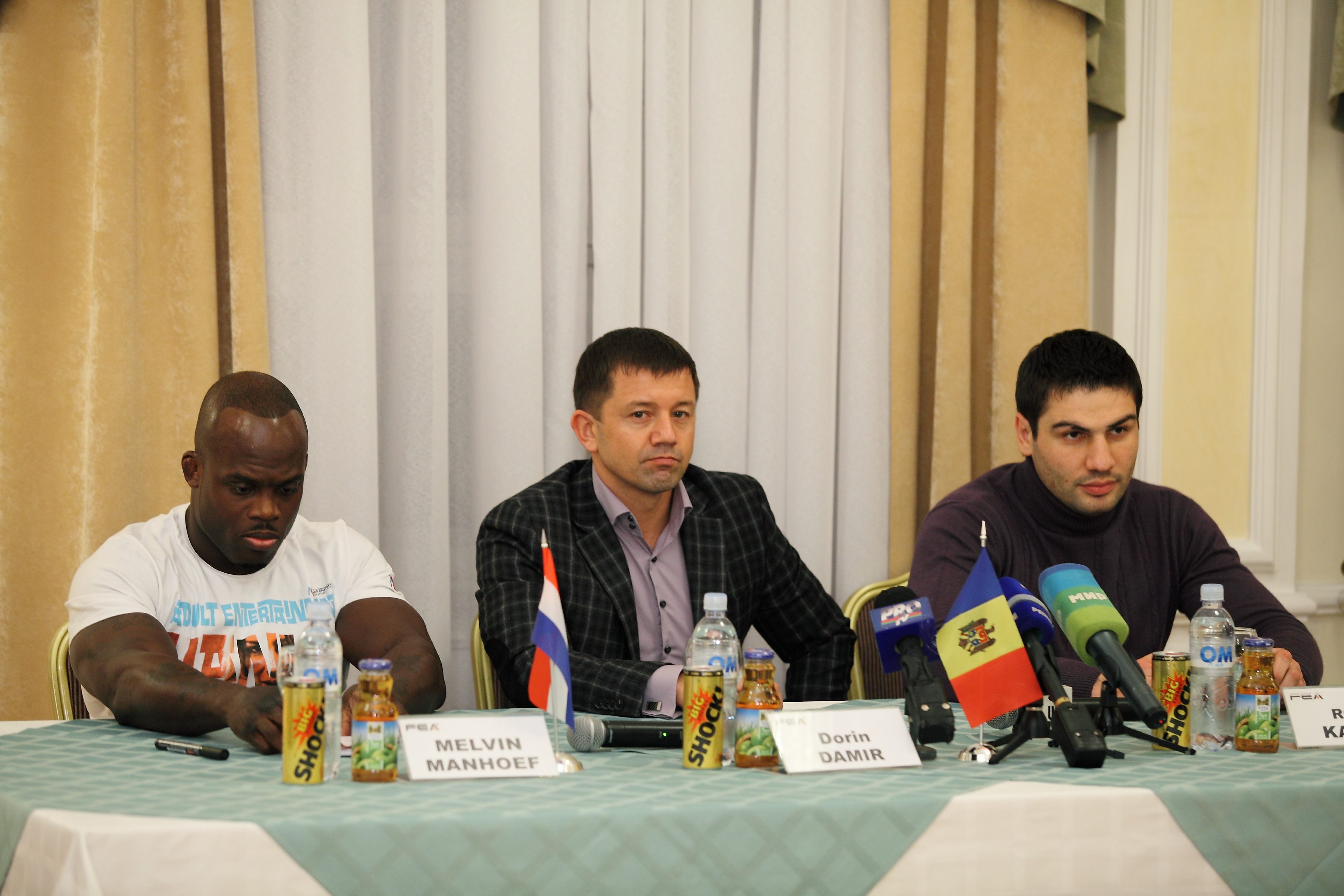 Melvin Manhoef, Dorin Damir, Rurslan Karaev